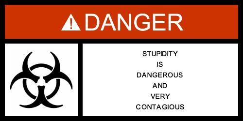 warning about stupidity